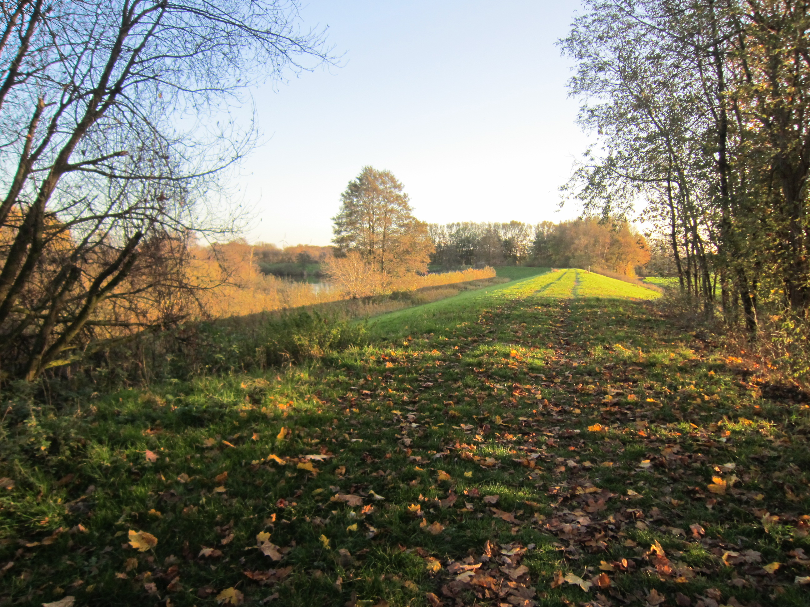 Dam of the former retention pond "Lüscher Polder" (Bakum, Lower Saxony)